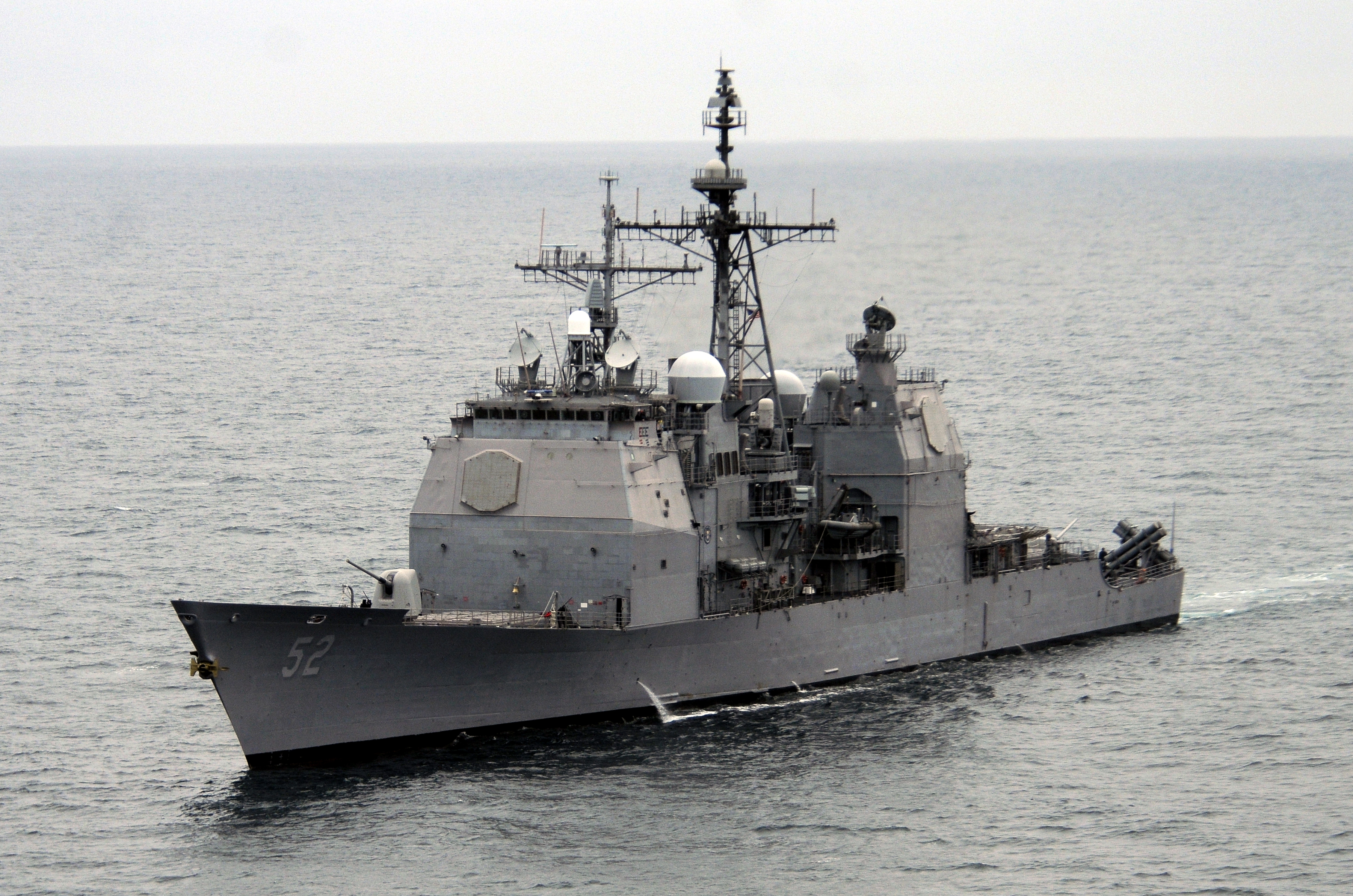 PACIFIC OCEAN (Sept. 17, 2011) The guided-missile cruiser USS Bunker Hill (CG 52) transits the Pacific Ocean. Bunker Hill is conducting a three-week composite training unit exercise in preparation for a deployment to the western Pacific Ocean. (U.S. Navy photo by Mass Communication Specialist Seaman John Grandin/Released)